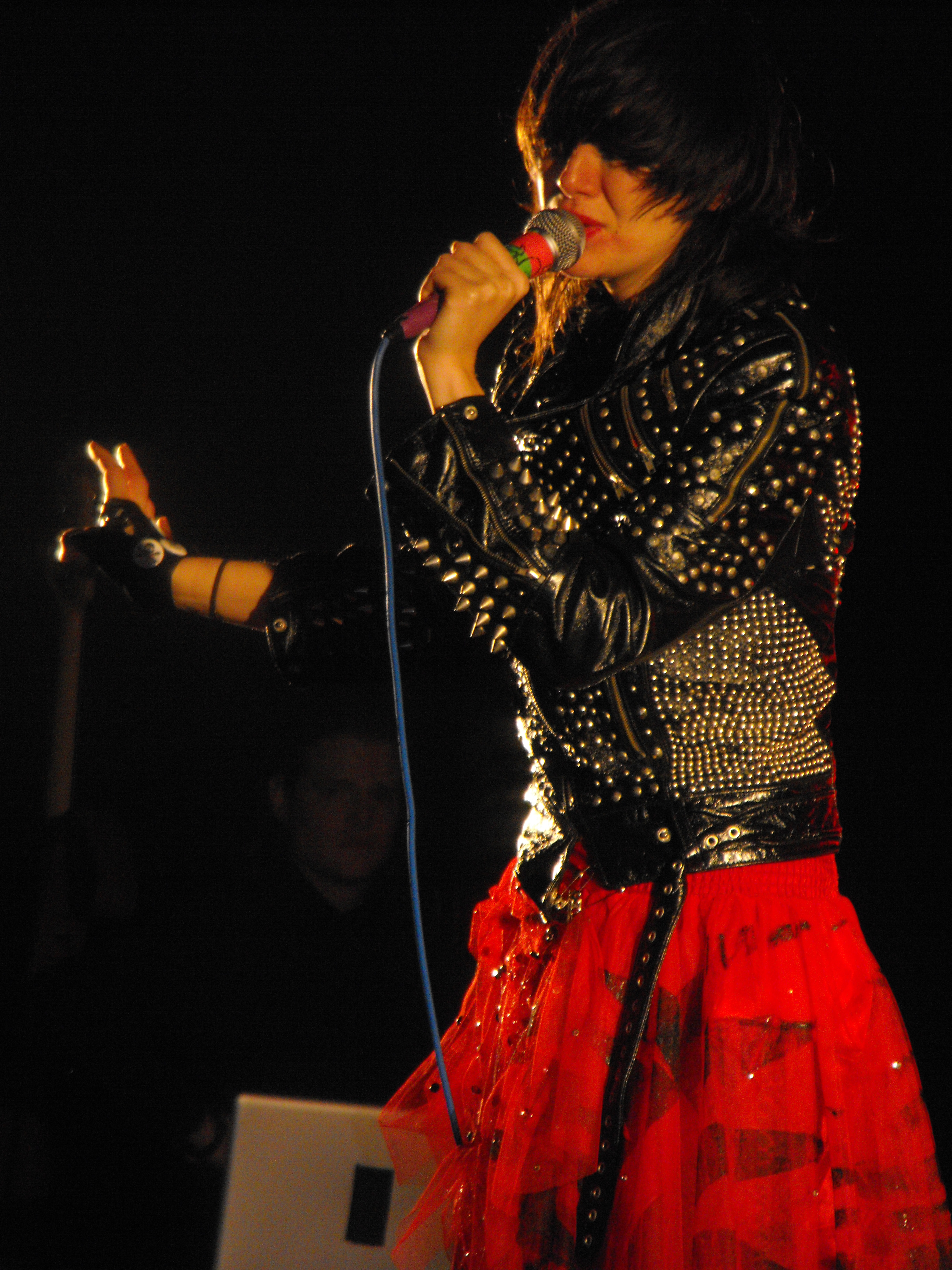 Karen O performing with Yeah Yeah Yeahs at All Tomorrows Parties 10 Year Anniversary Festival in December 2009.